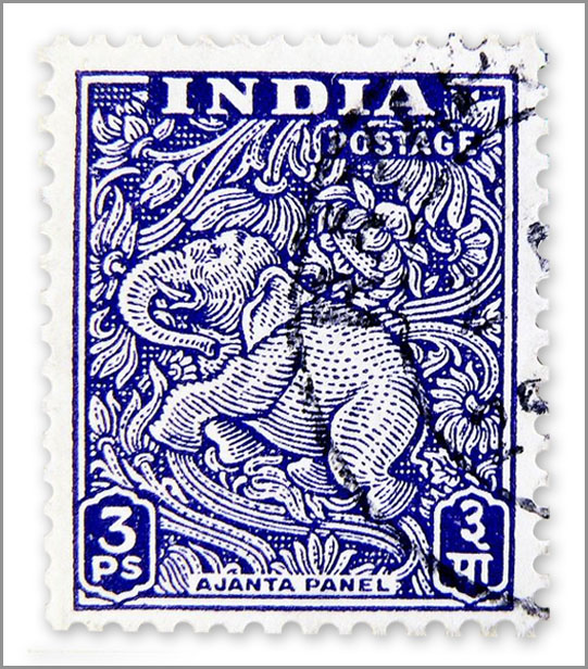 1949 definitive stamps (Ajanta Panel) 3 pice